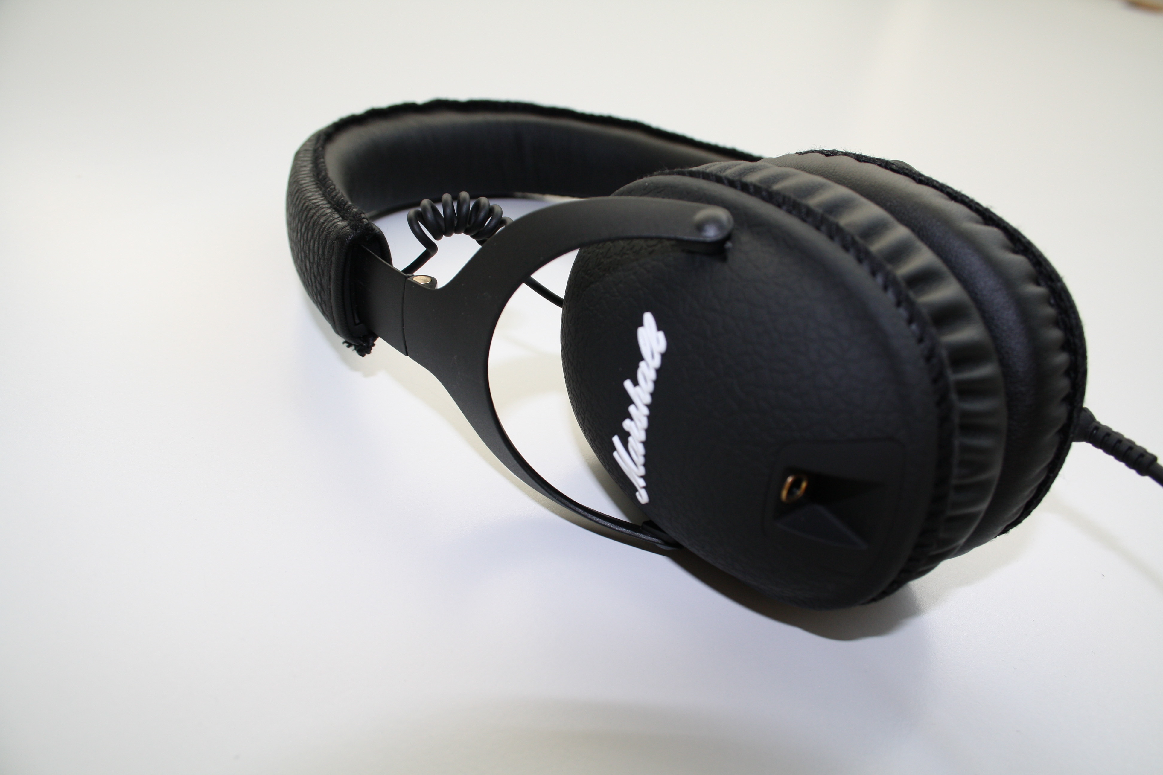 Marshall Monitor Kopfhörer Flickr Tags: HiFi Kopfhorer Marshall Monitor Sound.